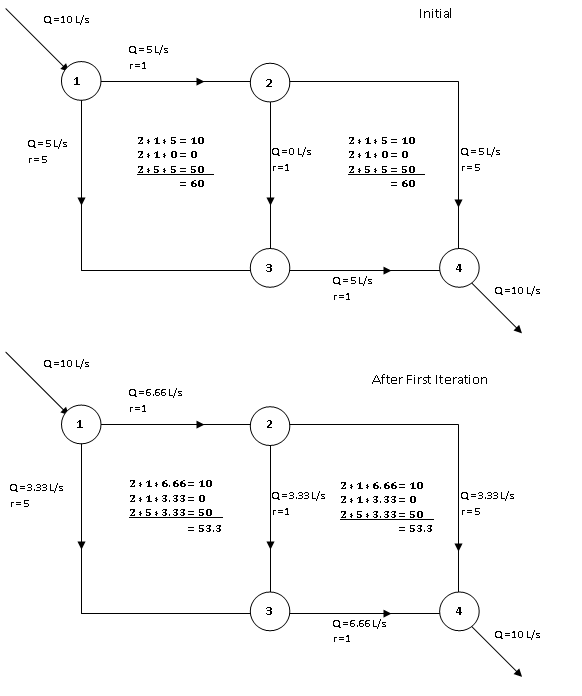 An example of the Hardy Cross method to illustrate the use of the method.